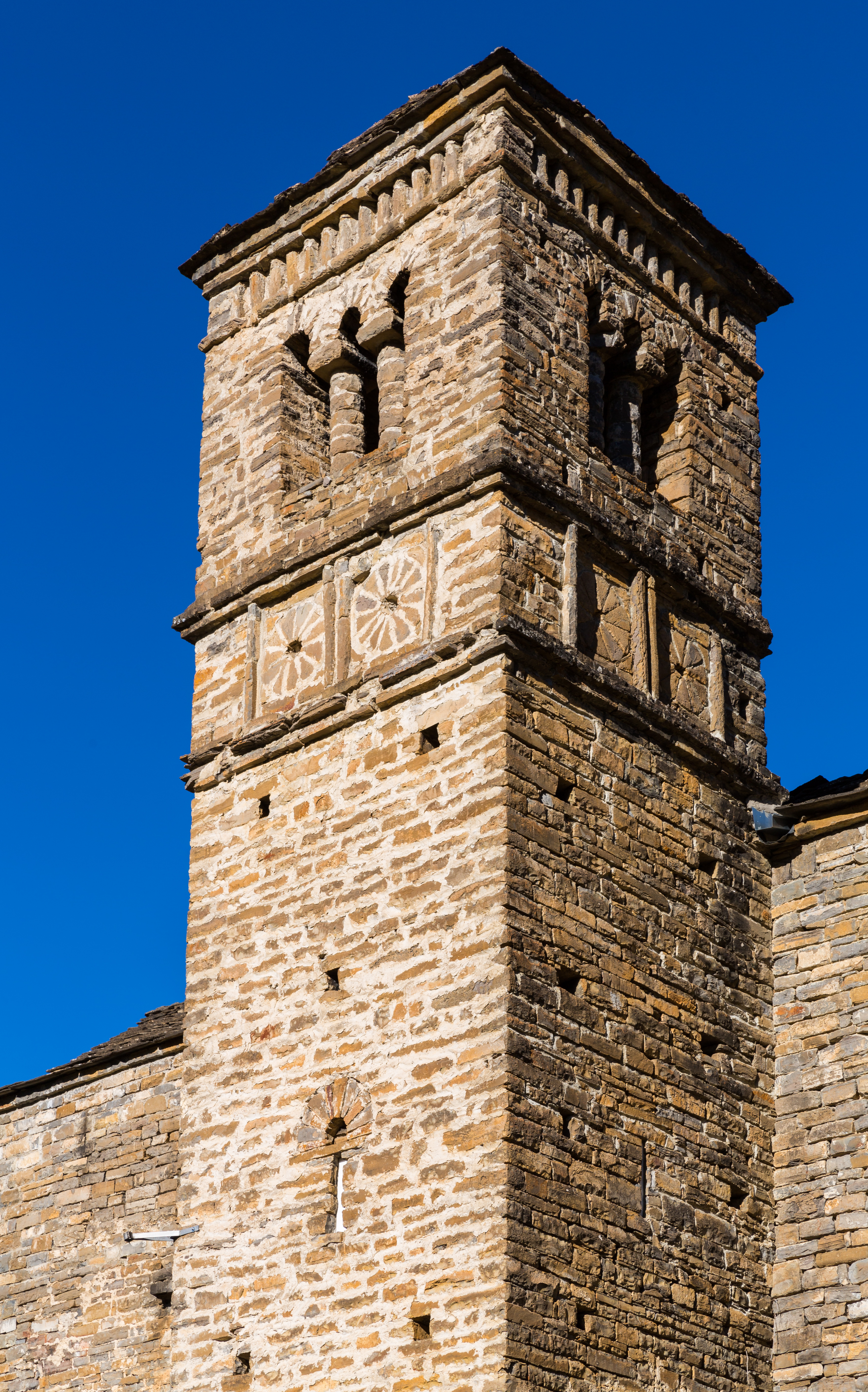 Church of St. Bartholomew, Gavín, Huesca, Spain